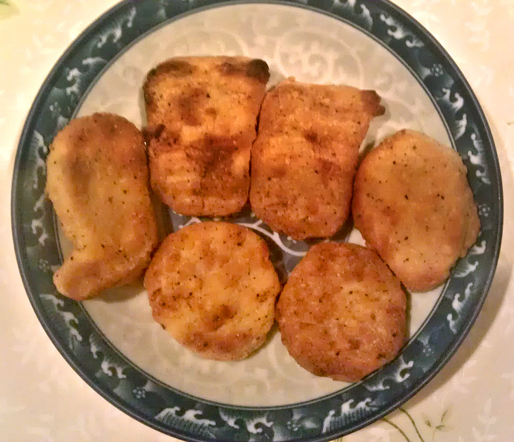 some home-baked chicken nuggets, photo was taken by me